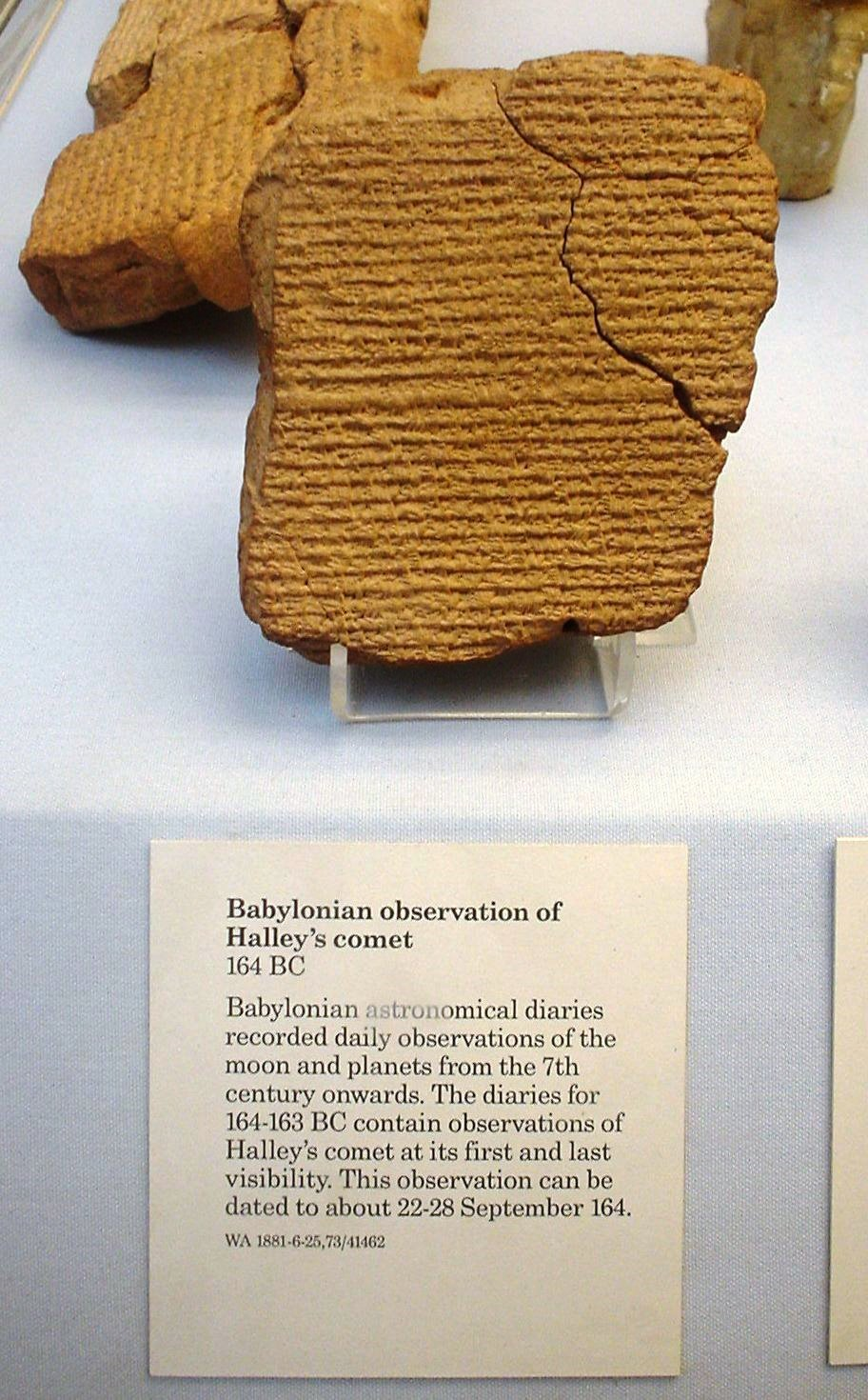 A Babylonian tablet recording Halley's comet during an appearance in 164 BC. At the British Museum in London